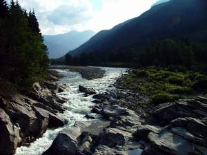 River Sesia, Italy (province of Vercelli)